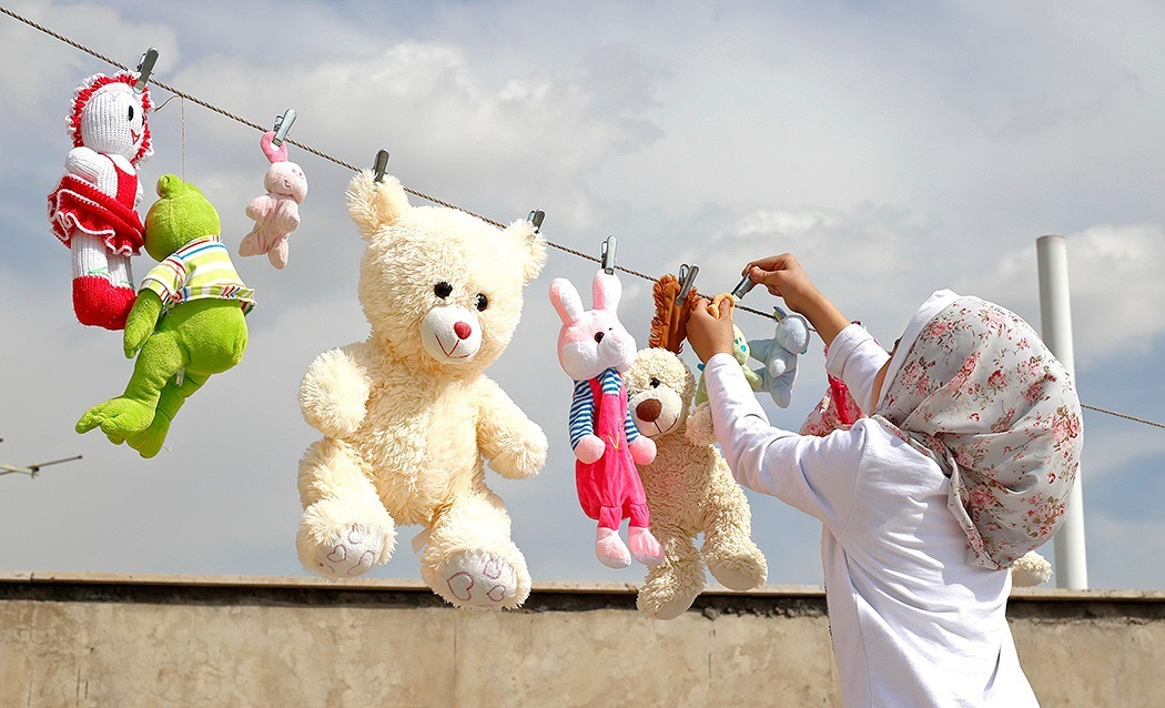 Khane-tekani of Nowruz 2018, Tehran - 15 March 2018